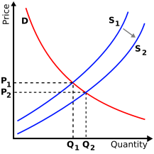 Illustrates the effect on equilibrium of leftward shift in supply